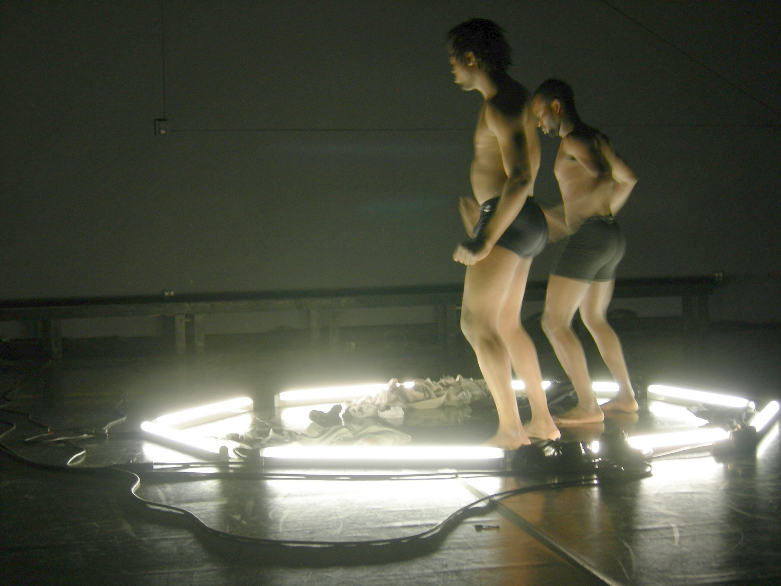 Festival of Lies performed at On the Boards, Seattle, Washington, USA by Congolese dance theater troupe Studios Kabako with the participation of dancer/choreographer Faustin Linyekula.